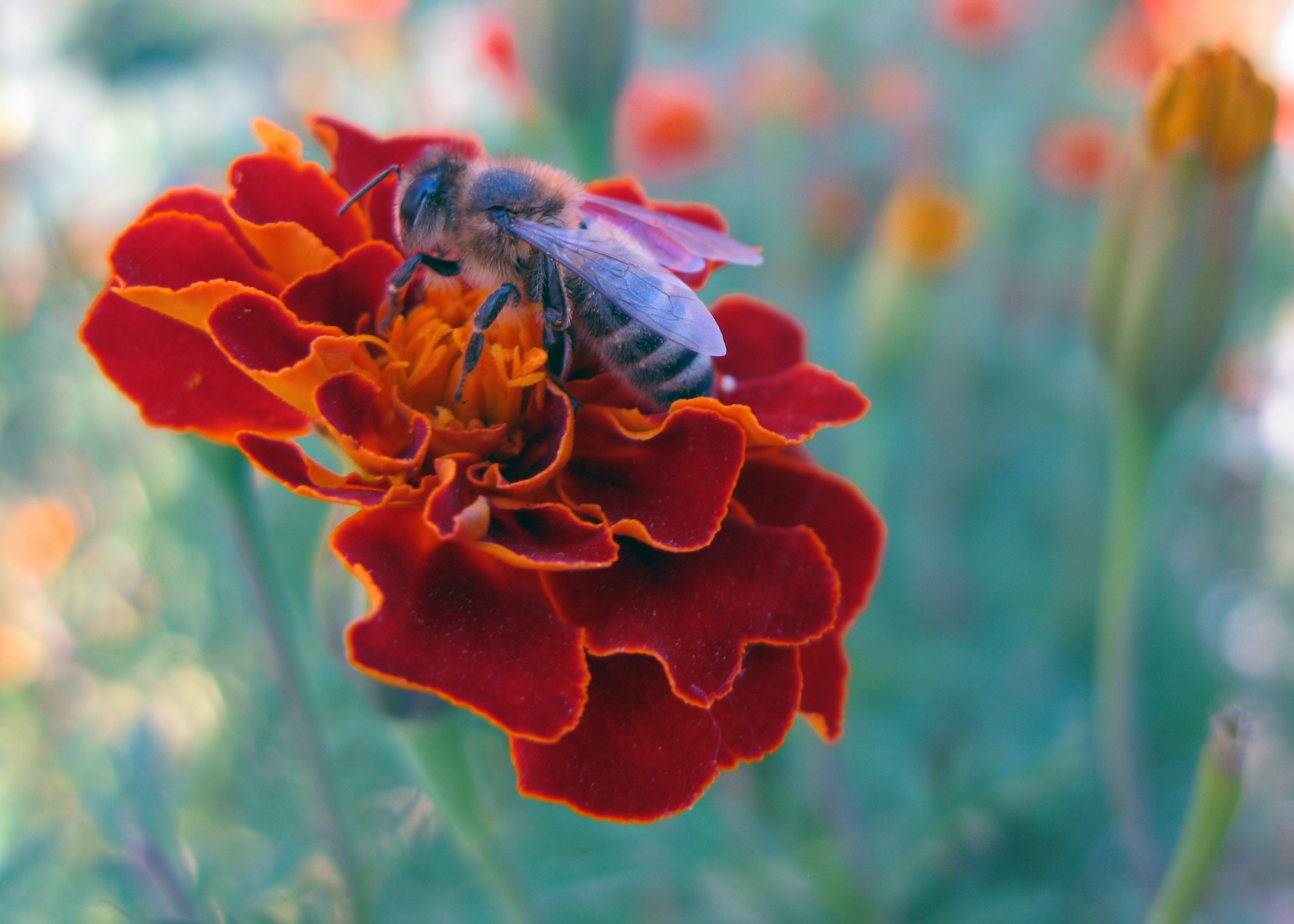 Honey bee (Apis mellifera) on a flower of a marigold (Tagetes sp.). Marigolds are annual and perennial plants, because of their unpretentiousness, are widely used in landscaping of urban flower beds and garden plots.